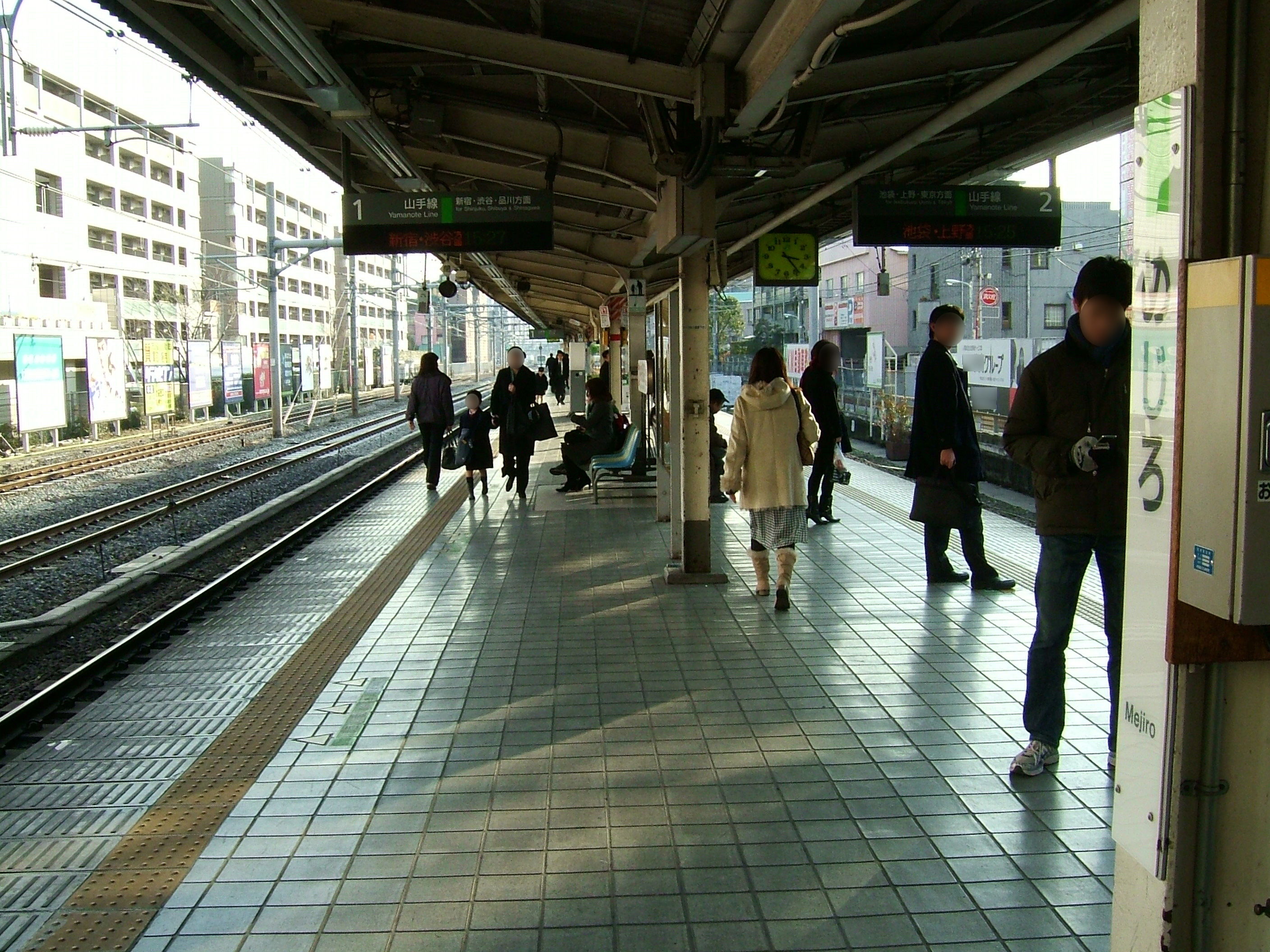 Mejiro Station platform (Yamanote Line)